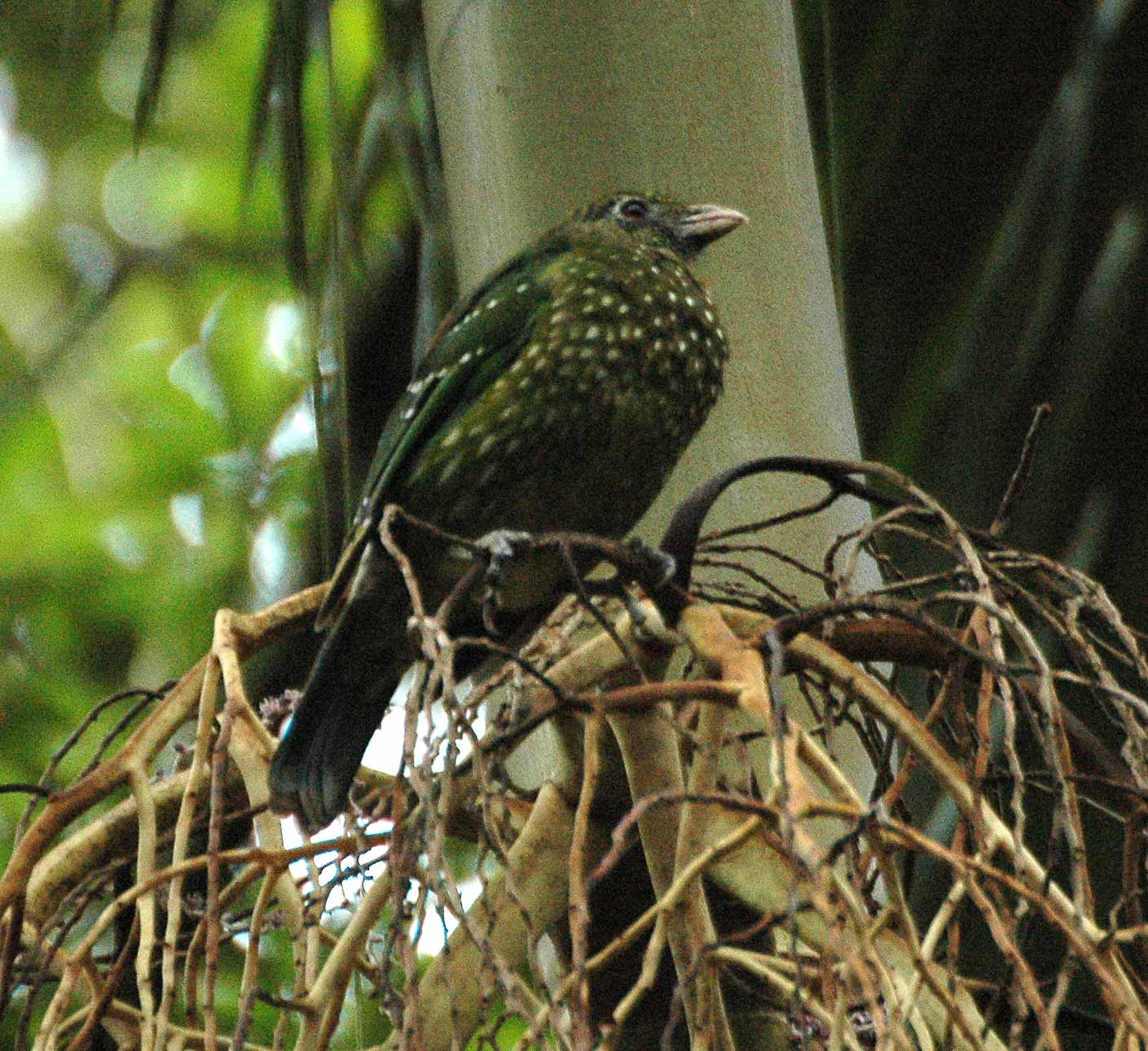 Green Catbird (Ailuroedus crassirostris) Mt Glorious, SE Queensland, Australia